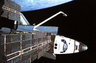 Space Station Mir - View of Atlantis taken from the Base Block module of Mir with the station's solar arrays and Atlantis's payload bay visible.